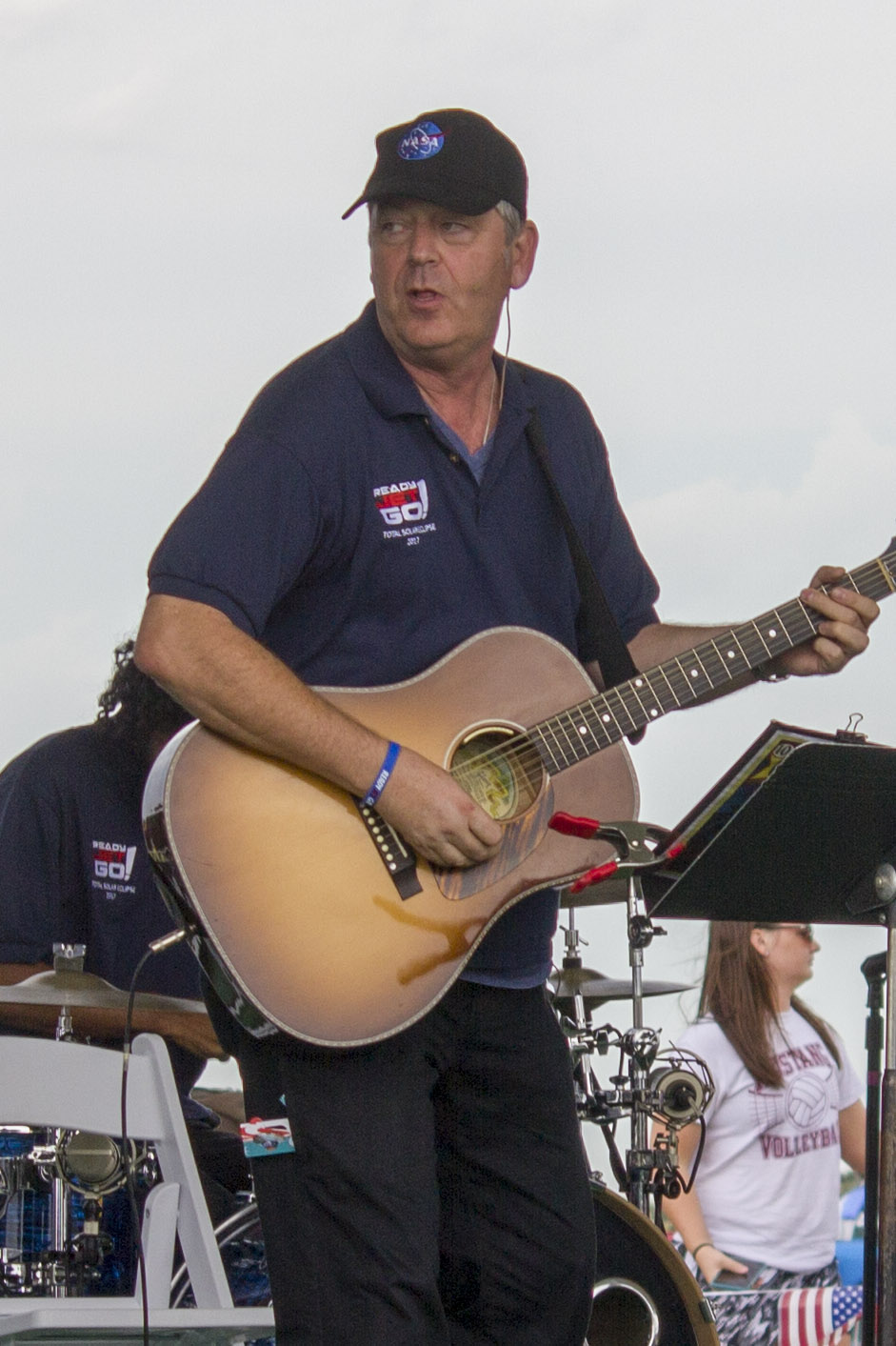 Craig Bartlett performing with the Ready, Jet Go band at a solar eclipse viewing event at the Homestead National Monument in Beatrice, Neb.